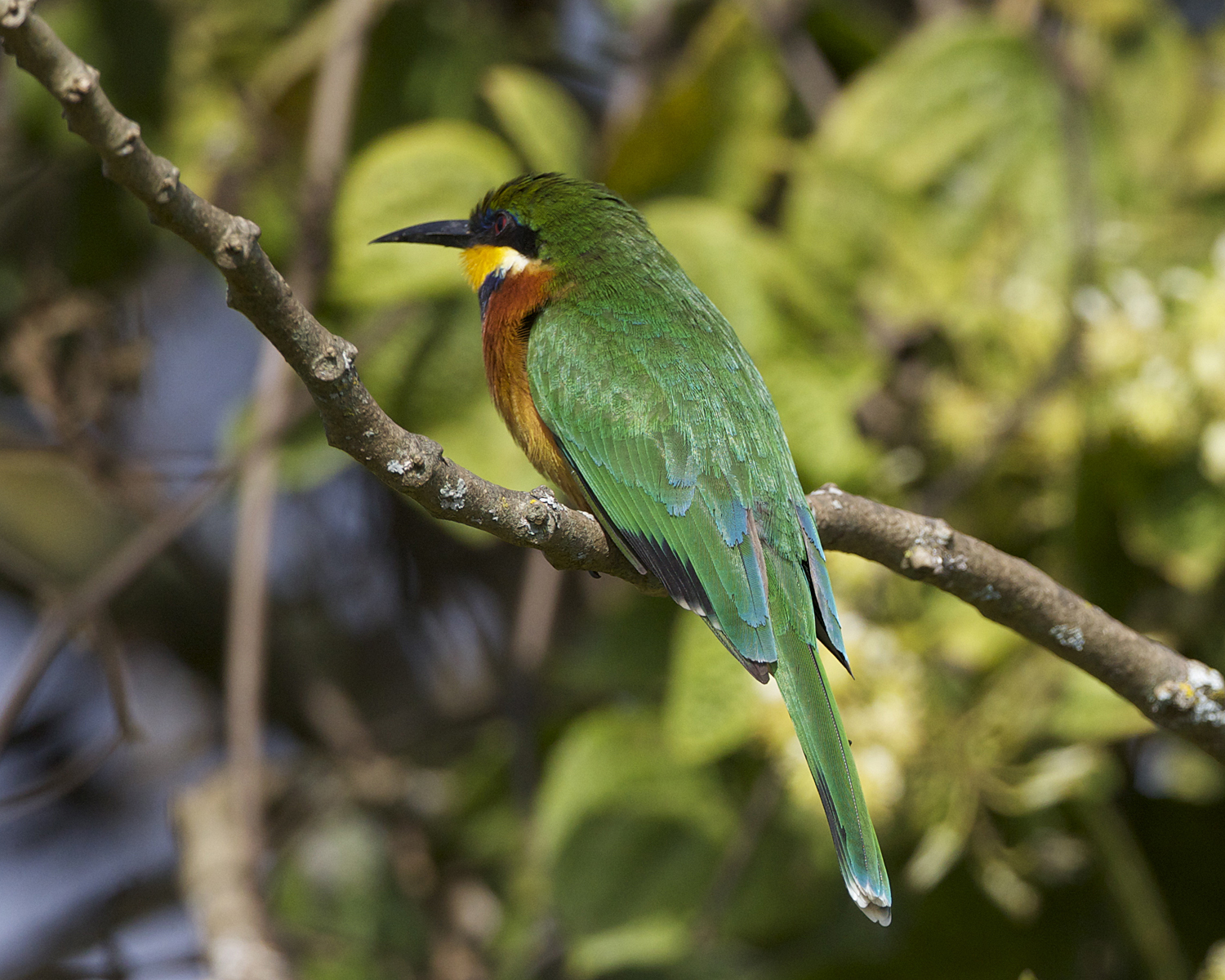 Cinnamon-chested Bee-eater (Merops oreobates). Ngorongoro Conservation Area, Tanzania. CF2P9152